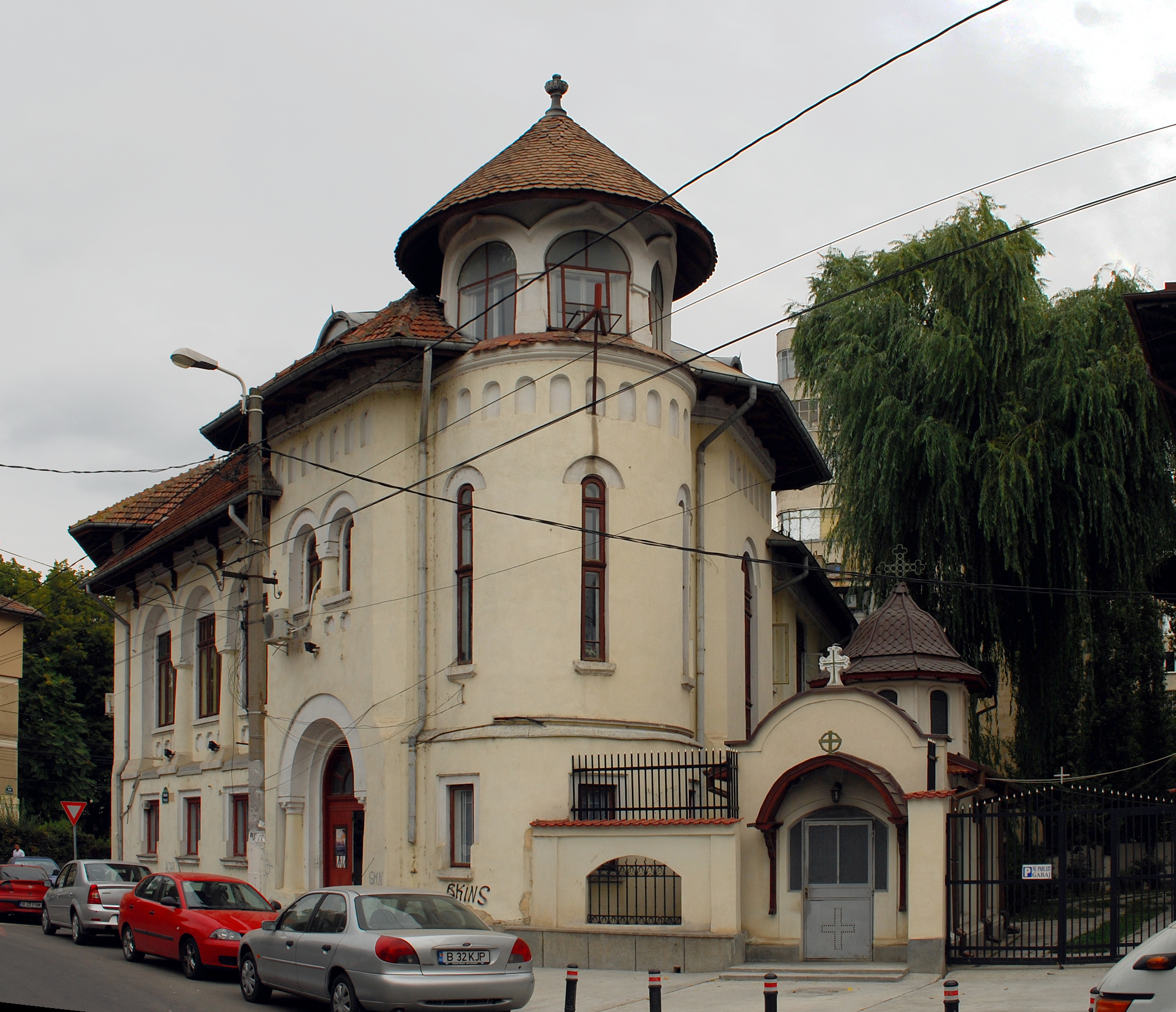 Cultural center of the Cărămidarii de Jos church in Bucharest, Romania